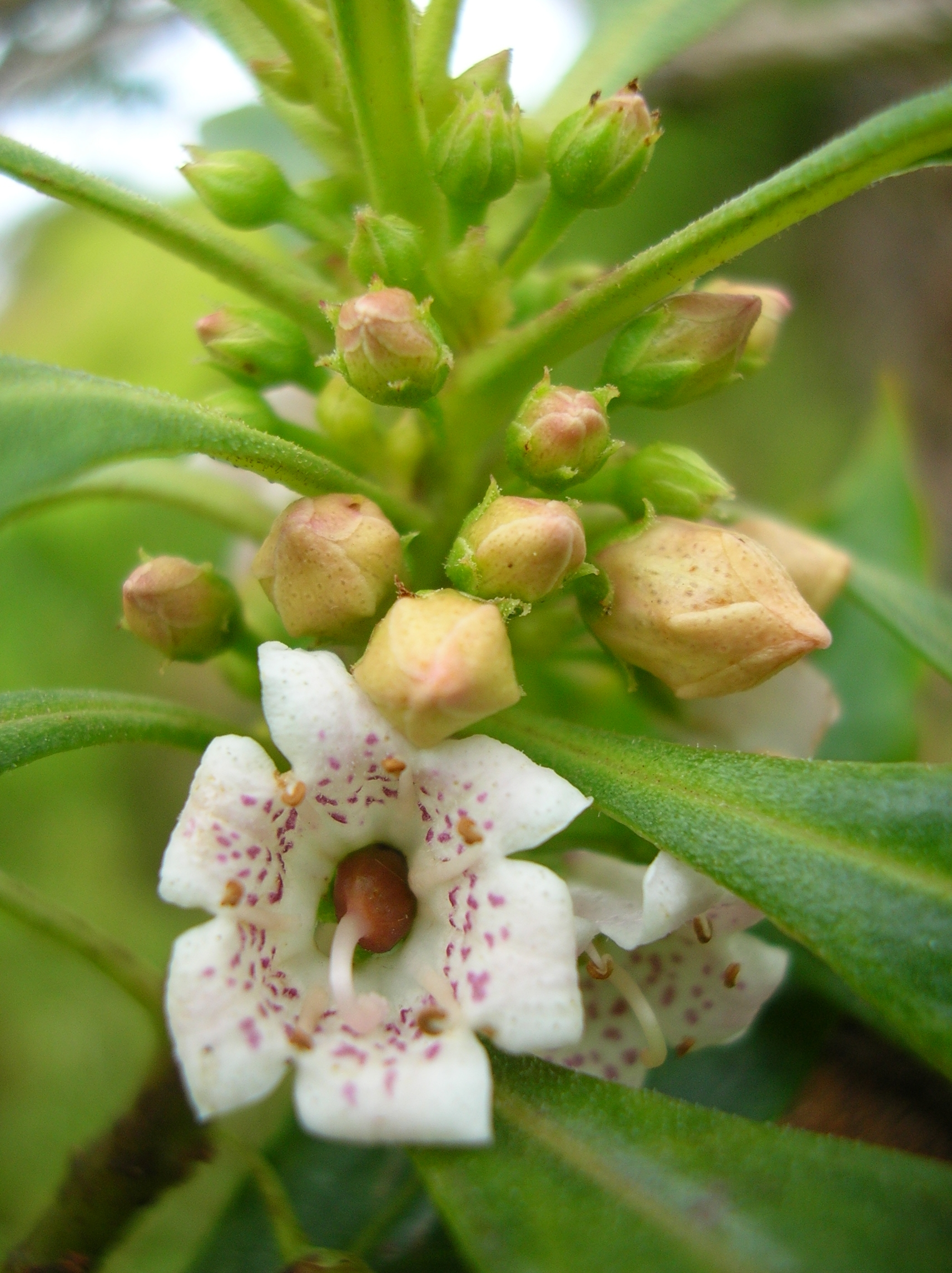 Myoporum sandwicense (flower). Location: Maui, Auwahi